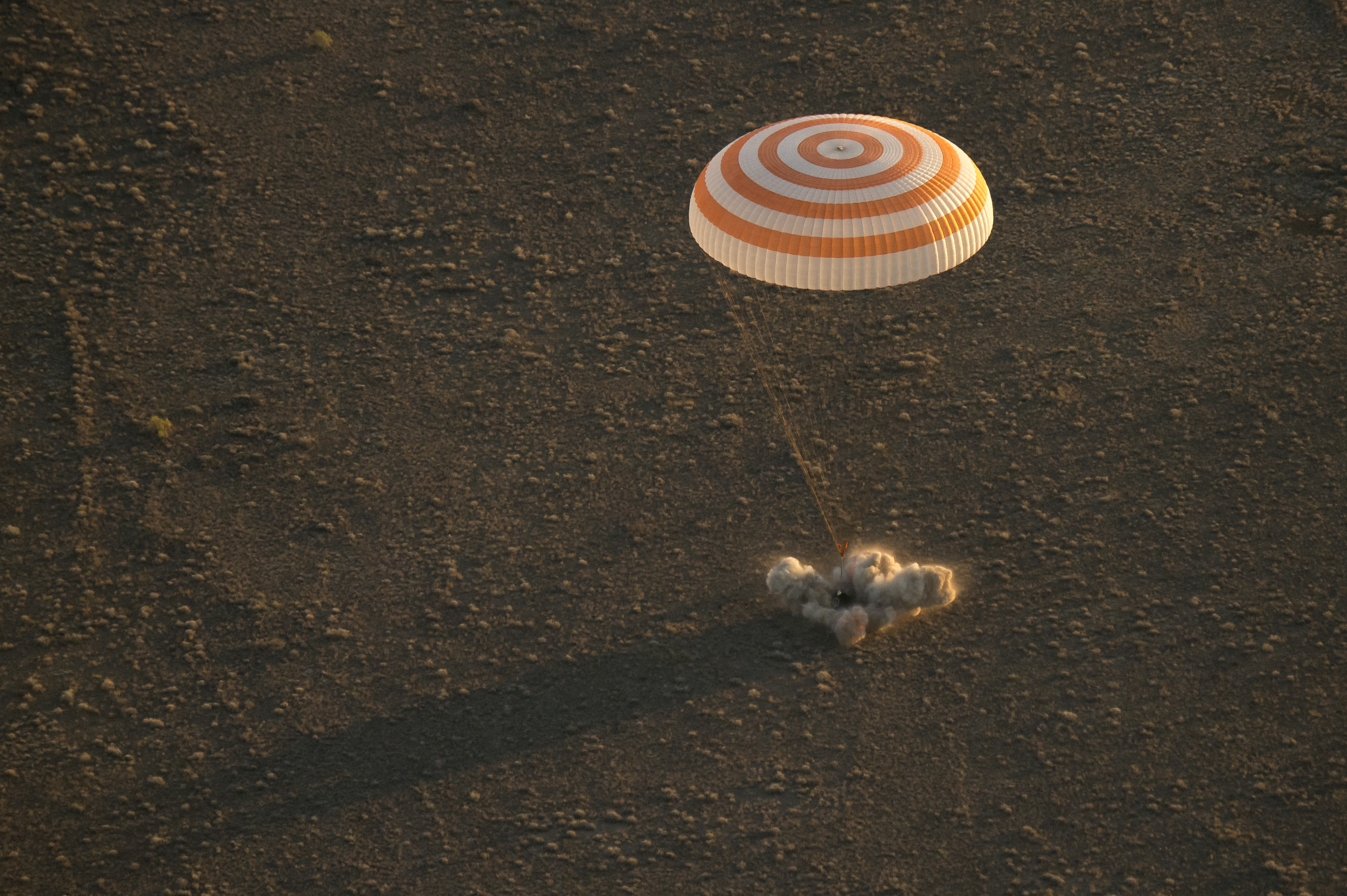 The Soyuz TMA-20M spacecraft is seen as it lands with Expedition 48 crew members NASA astronaut Jeff Williams, Russian cosmonauts Alexey Ovchinin, and Oleg Skripochka of Roscosmos near the town of Zhezkazgan, Kazakhstan on Wednesday, Sept. 7, 2016(Kazakh time). Williams, Ovchinin, and Skripochka are returning after 172 days in space where they served as members of the Expedition 47 and 48 crews onboard the International Space Station.